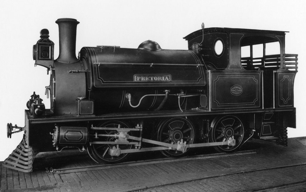 Pretoria-Pietersburg Railway 26 Tonner 0-6-0ST “Pretoria”